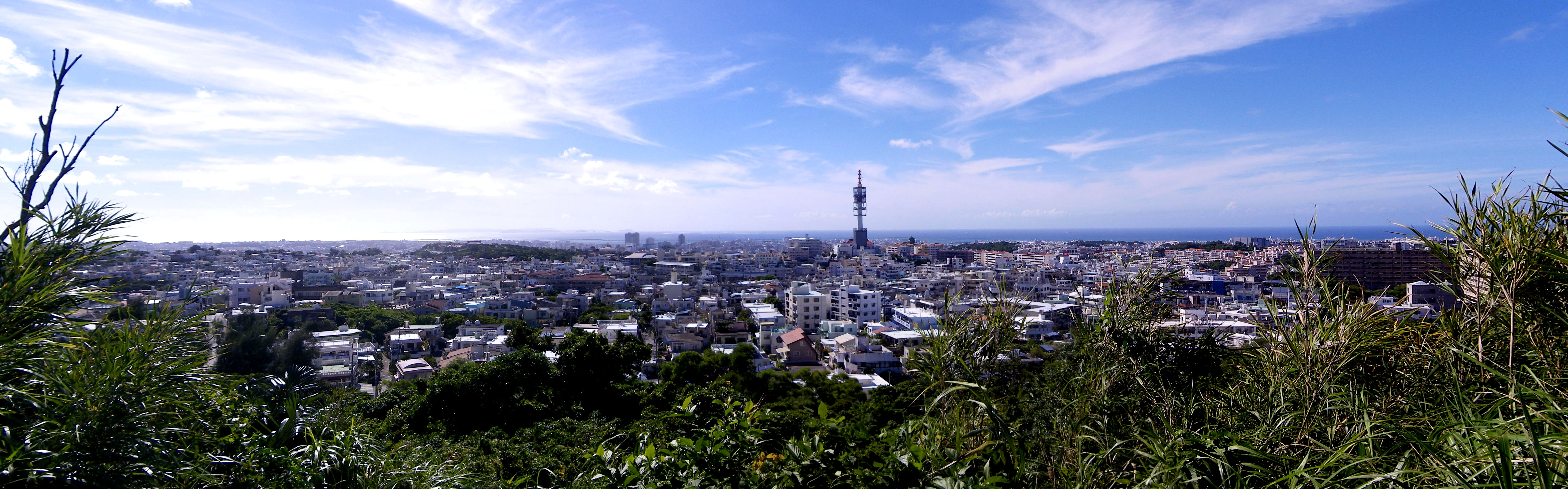 Panoramic view of Shuri, taken photo from the top of Bengadake, the highest point in Naha City located in Okinawa Prefecture, Japan. Synthesized 8 photographs.